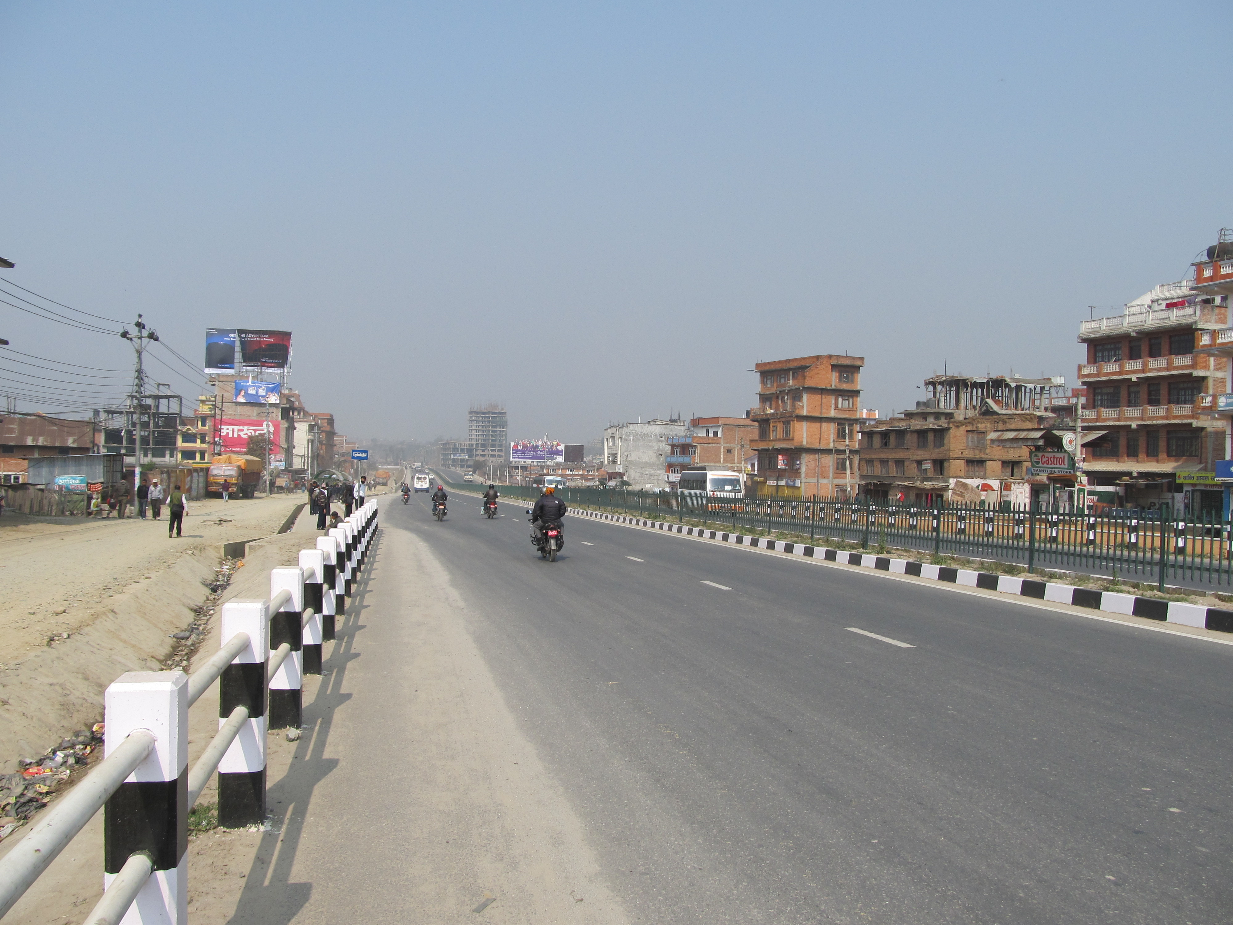 Arniko Rajmark between Kathmandu and Bhaktapur newly expanded to 4 lanes, here around Madhjapur-Thimi